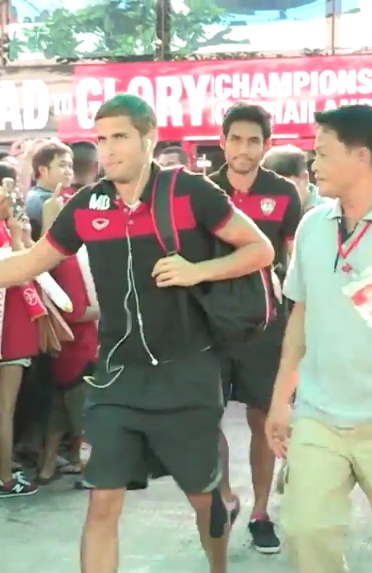 Mario Gjurovski before game Thai Premier League Ostospa Saraburi - Muangthong United